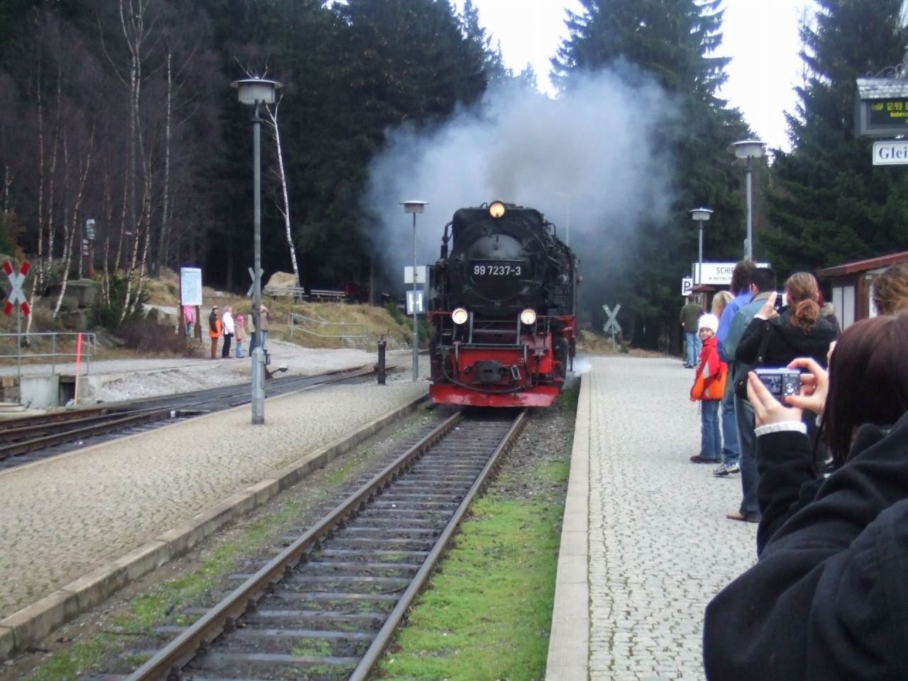 Steamtrain 99 7237-3 arrived in Schierke.